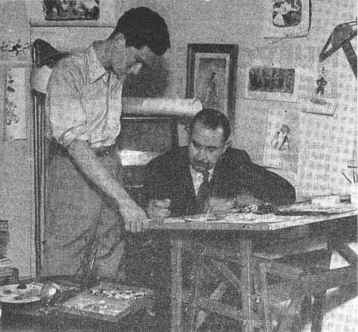 Argentinian comic artist Alberto Breccia teaching his pupil Ballesteros how to draw a comic.